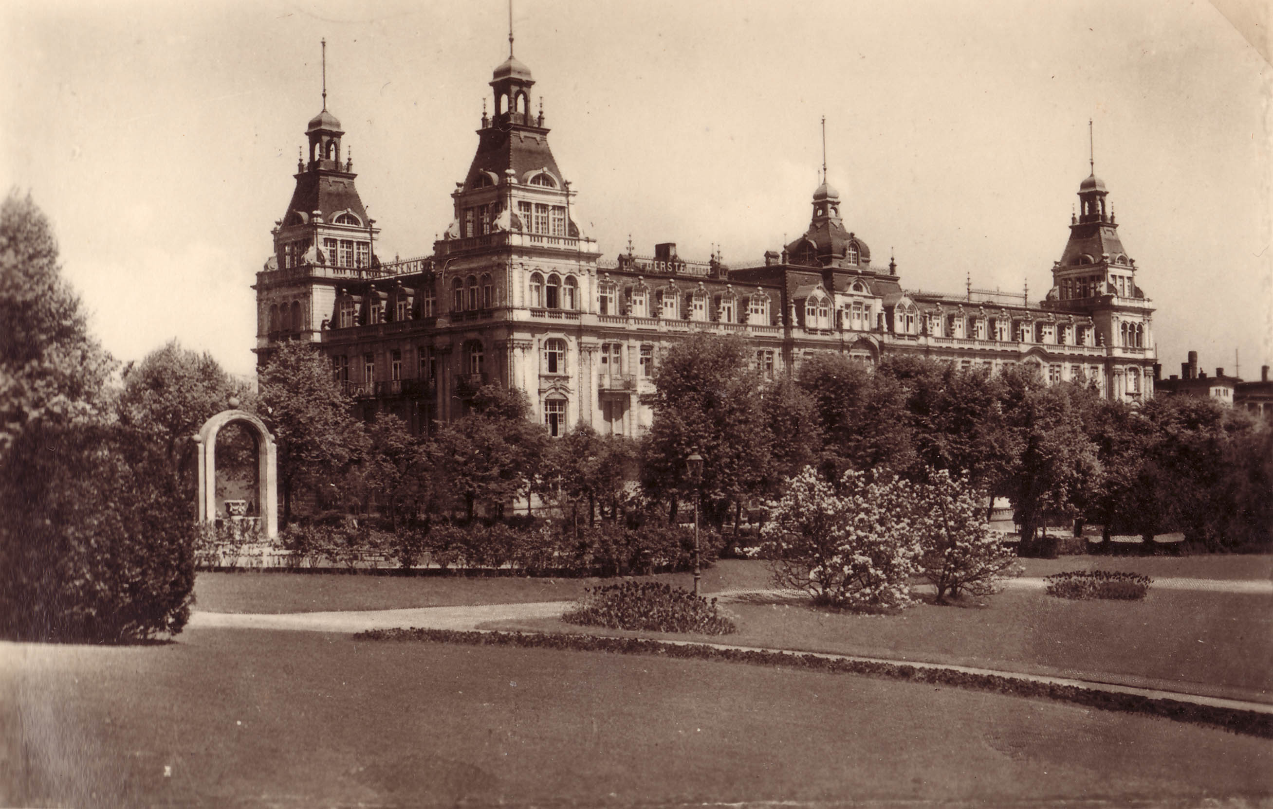 Bad Wildungen, view from the south east, in the early 50th (1953)